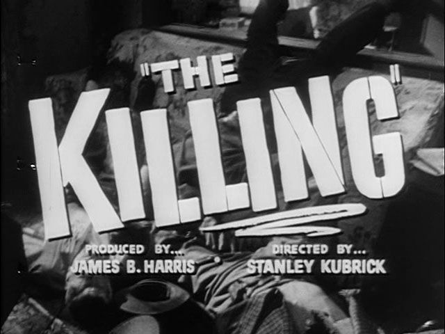 Title of the film "The Killing" taken from the trailer.